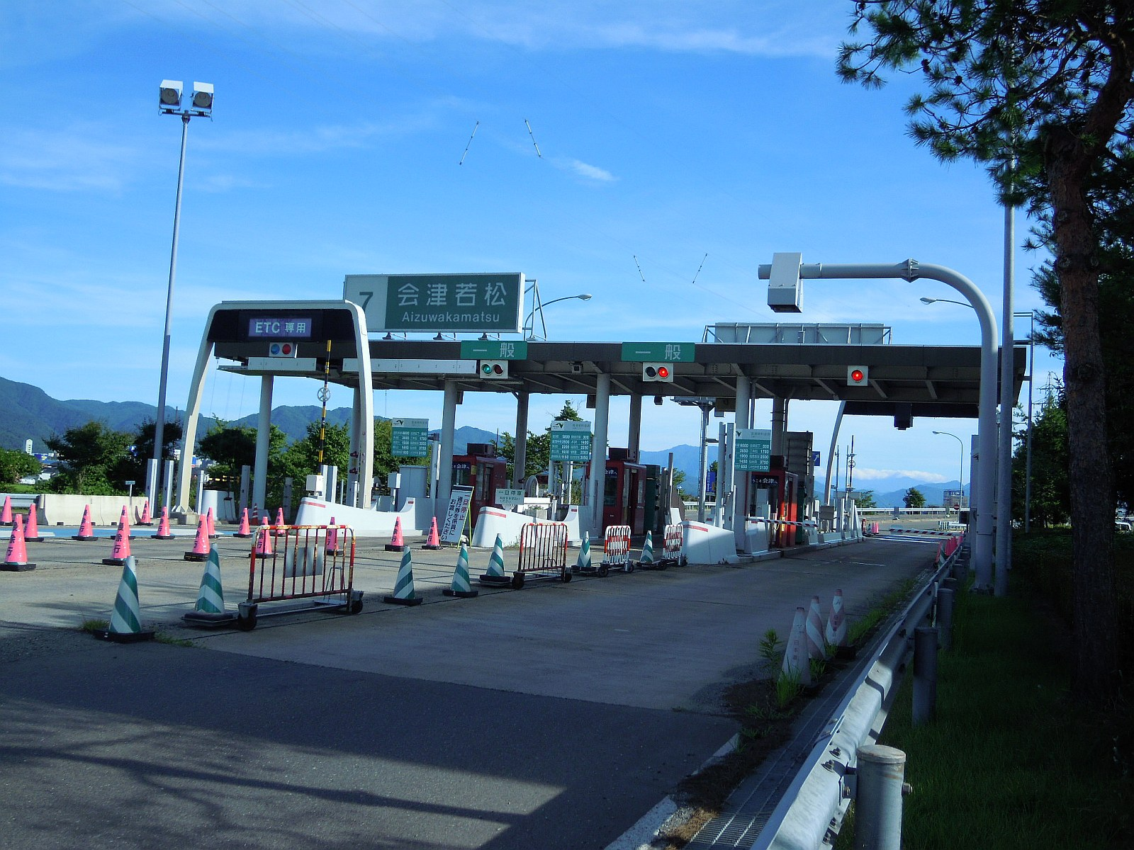 This Interchange, Aizuwakamatsu Interchange, is on Ban'etsu Expressway, in Aizuwakamatsu City, Fukushima Prefecture, Japan.